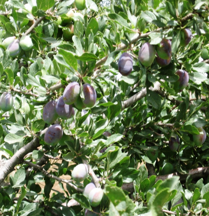 Plums in the village of Berrem, near Midelt. Photograph taken by Wikipedia contributor InnocentsAbroad in July, 2006.